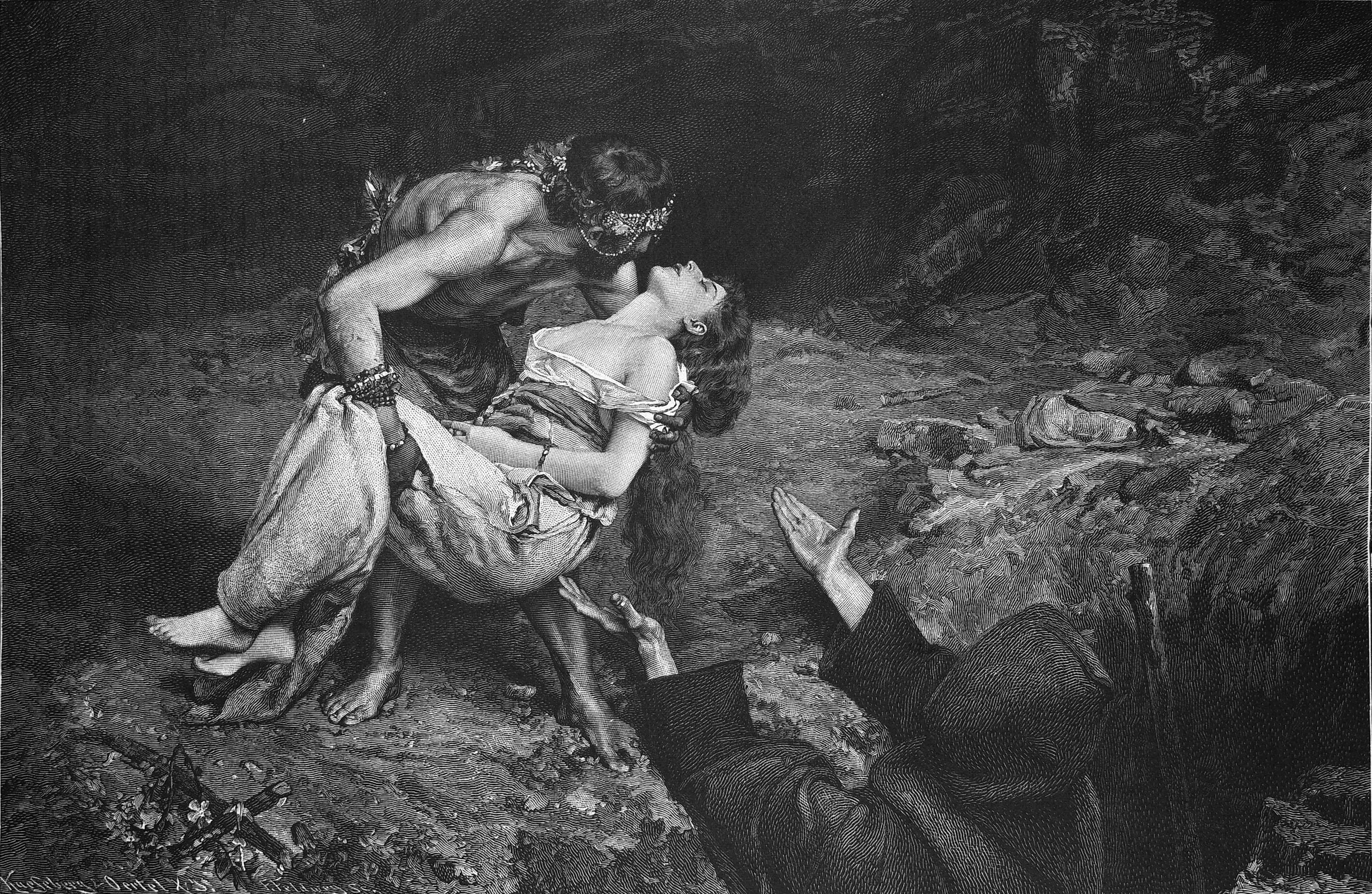 The burial of Atala